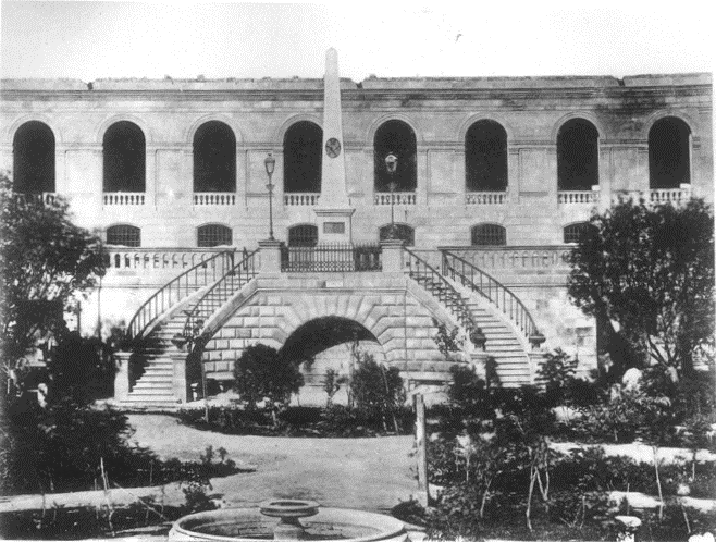 Tsitsianov's monument in Baku.